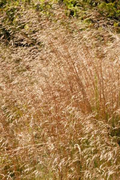 Agrostis canina from Commanster, Belgian High Ardennes .